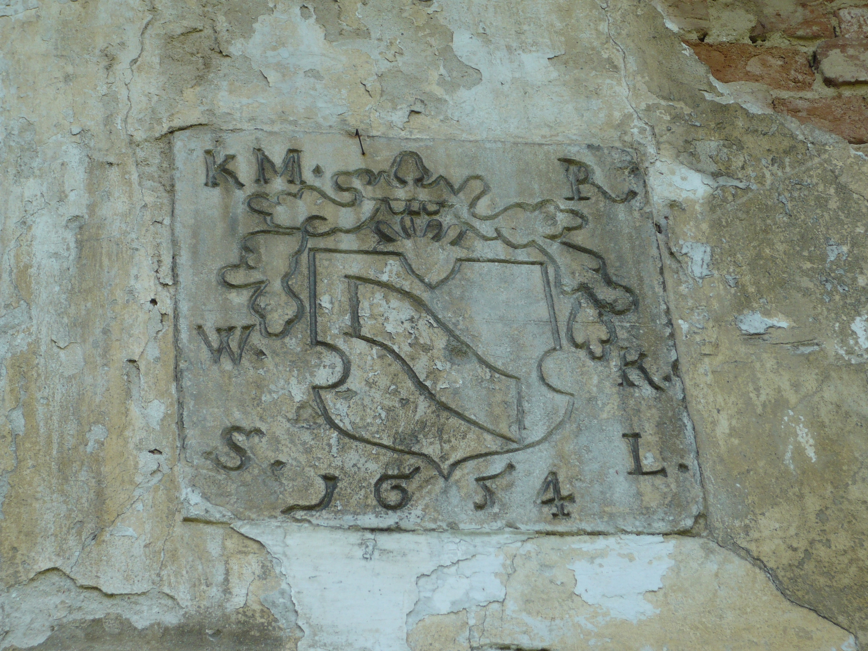 Kolosy - Arian church